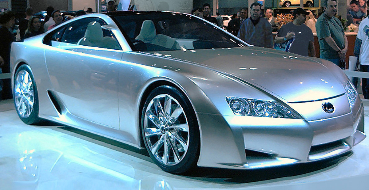 A picture of the Lexus LF-A concept car at the 2006 Greater Los Angeles Auto Show. (Photo taken by Covinan.